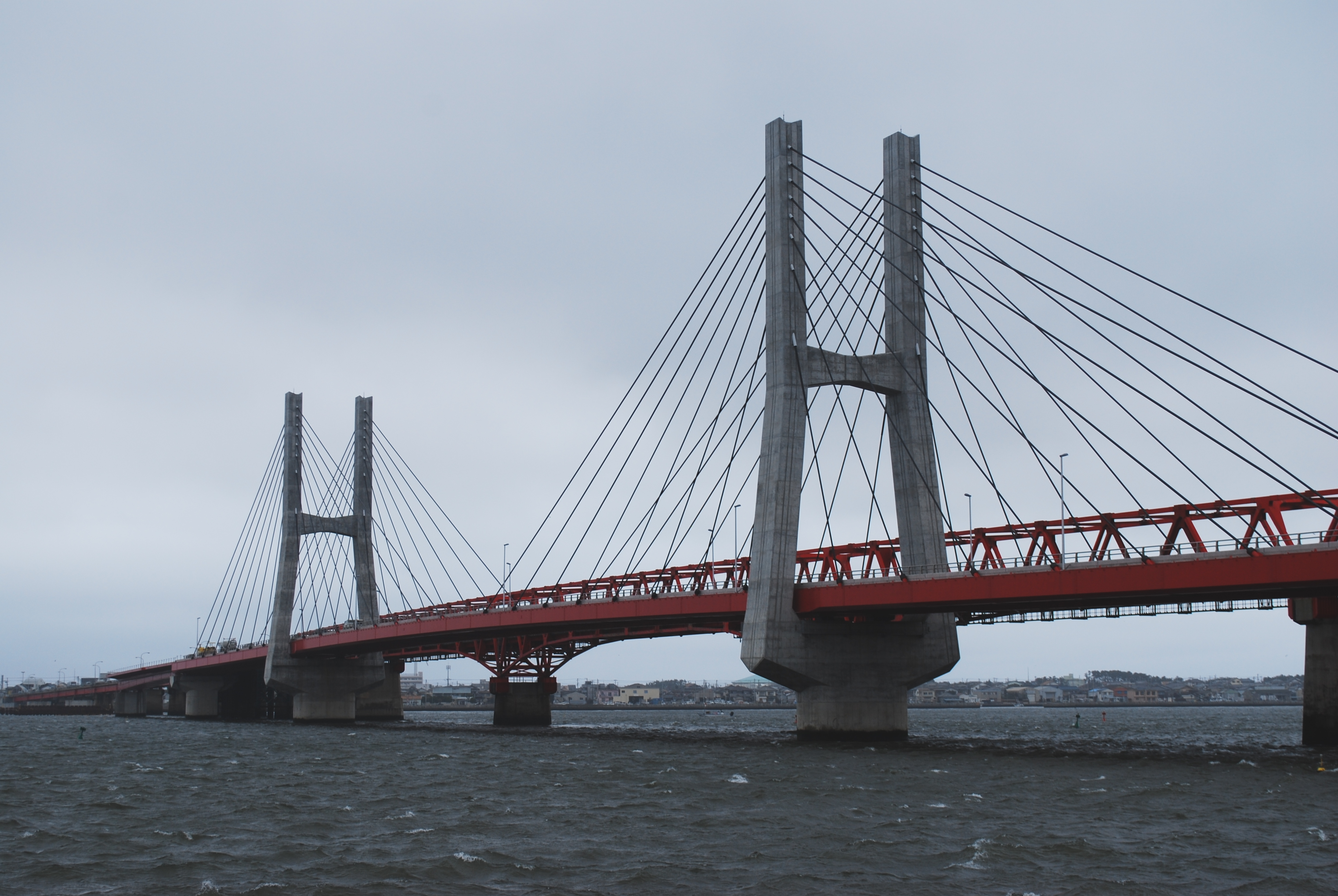 New Choshi bridge,Choshi-city,Japan